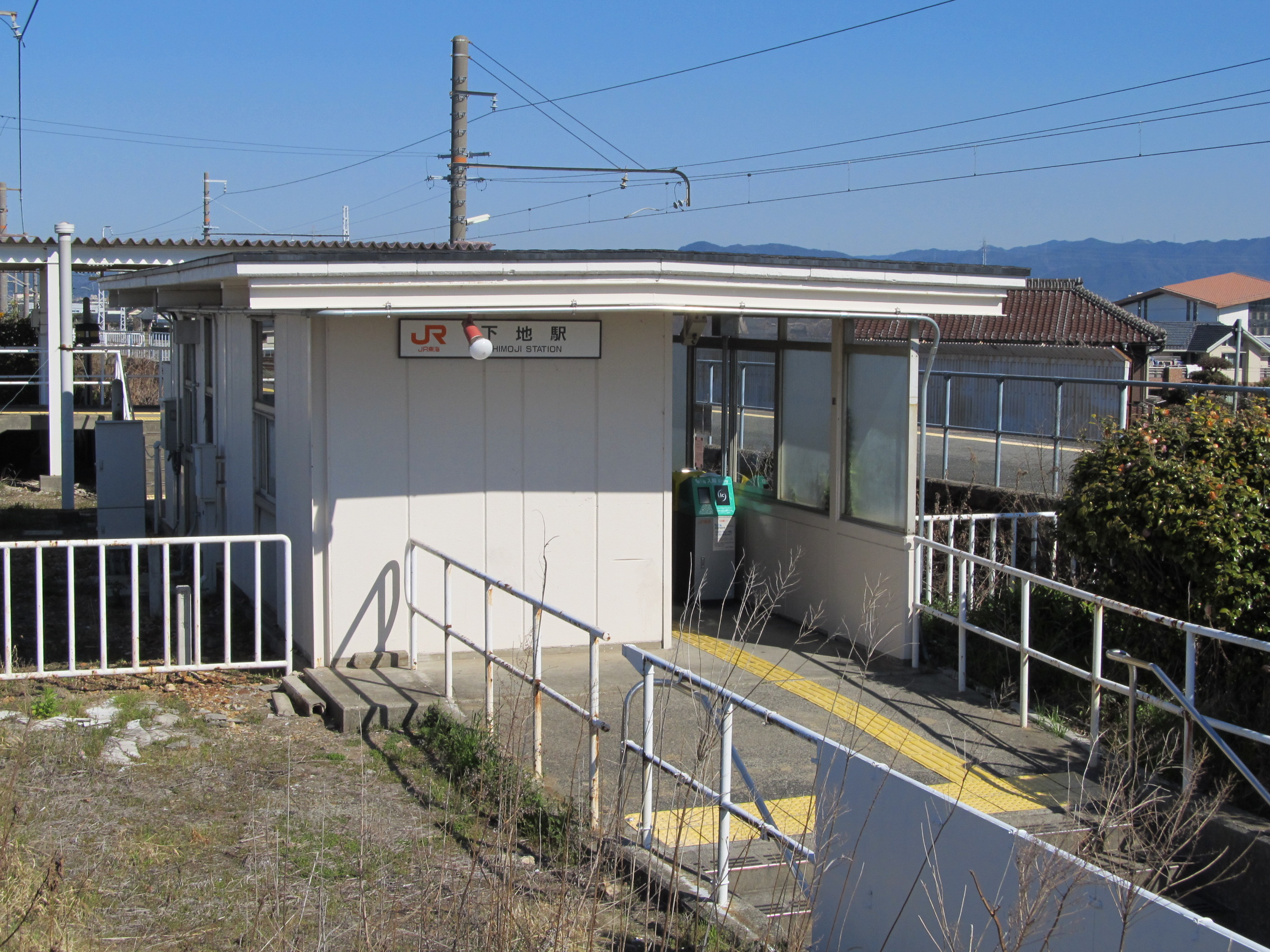 Central Japan Railway Iida Line Shimoji Station Building